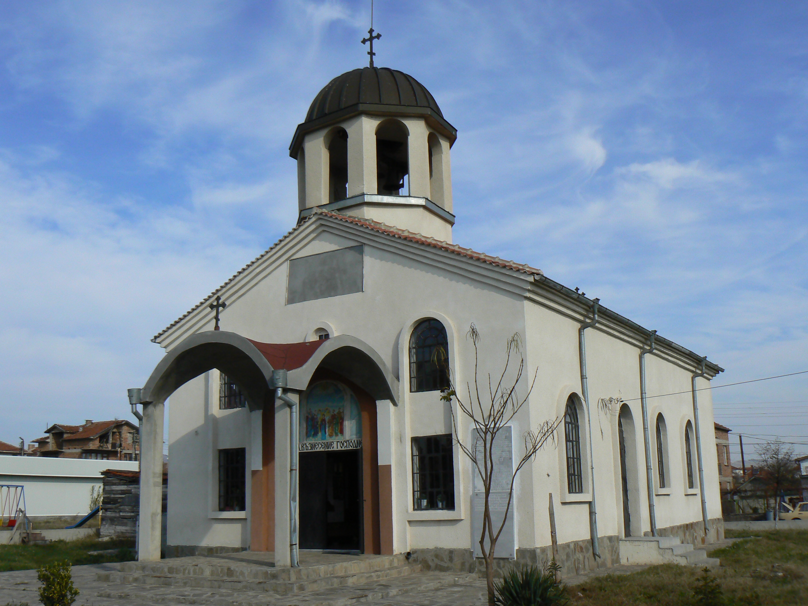 Ascension of Christ church in Vetren neighborhood, Burgas, Bulgaria